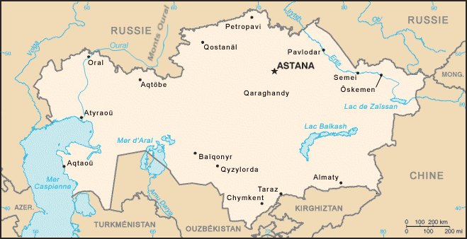 Map of Kazakhstan translated into French.